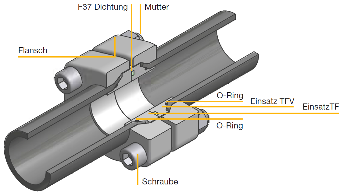 Parflange F37 Flaring Flange Connection